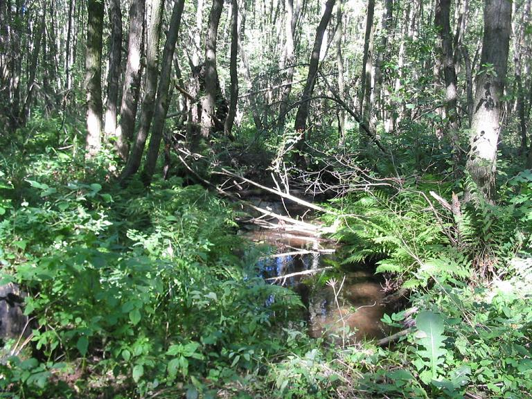 Stream and black alders (Alnus glutinosa) in the nature reserve (german:Naturschutzgebiet) Zarth - a fenny forest, situated in the nature reserve (german:Naturpark) Nuthe Nieplitz at the border between the low Mountain rage Fläming and the glacial valley Baruther Urstromtal. It is part of the town Treuenbrietzen in the district Potsdam Mittelmark, state Brandenburg, Germany.